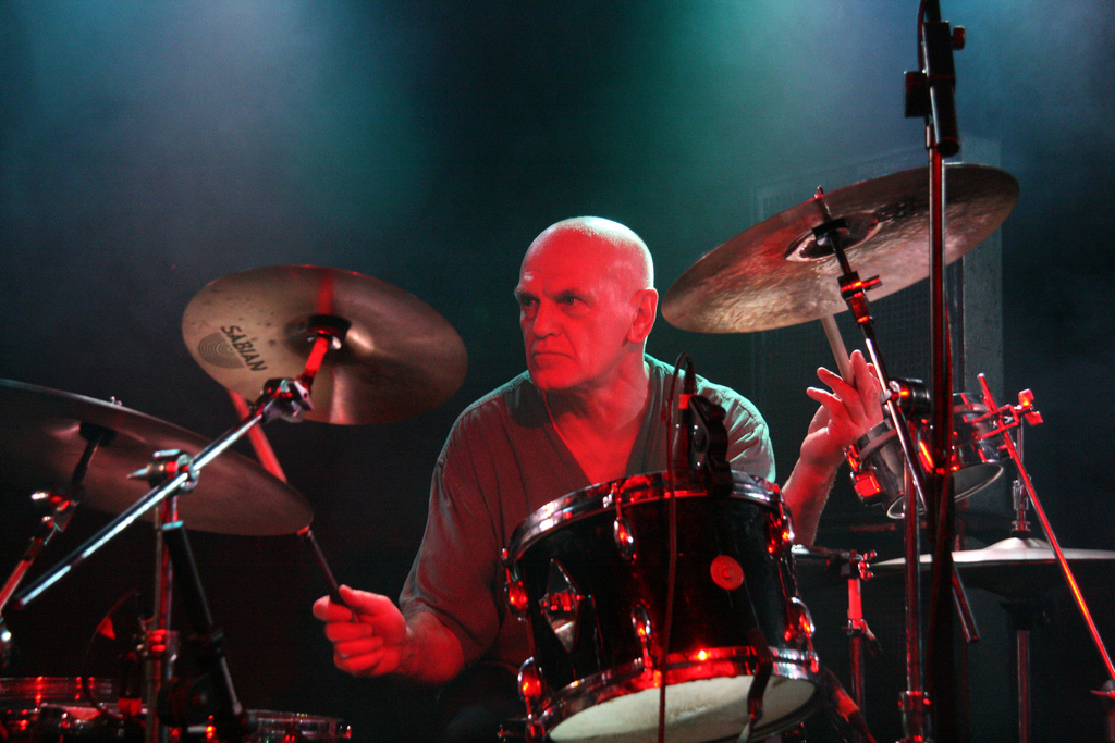 Guy Evans (rock drummer)